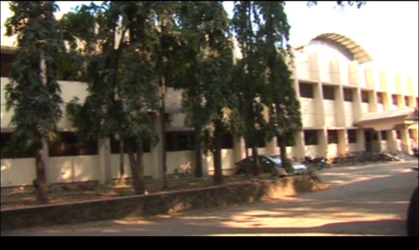 aeroiitb